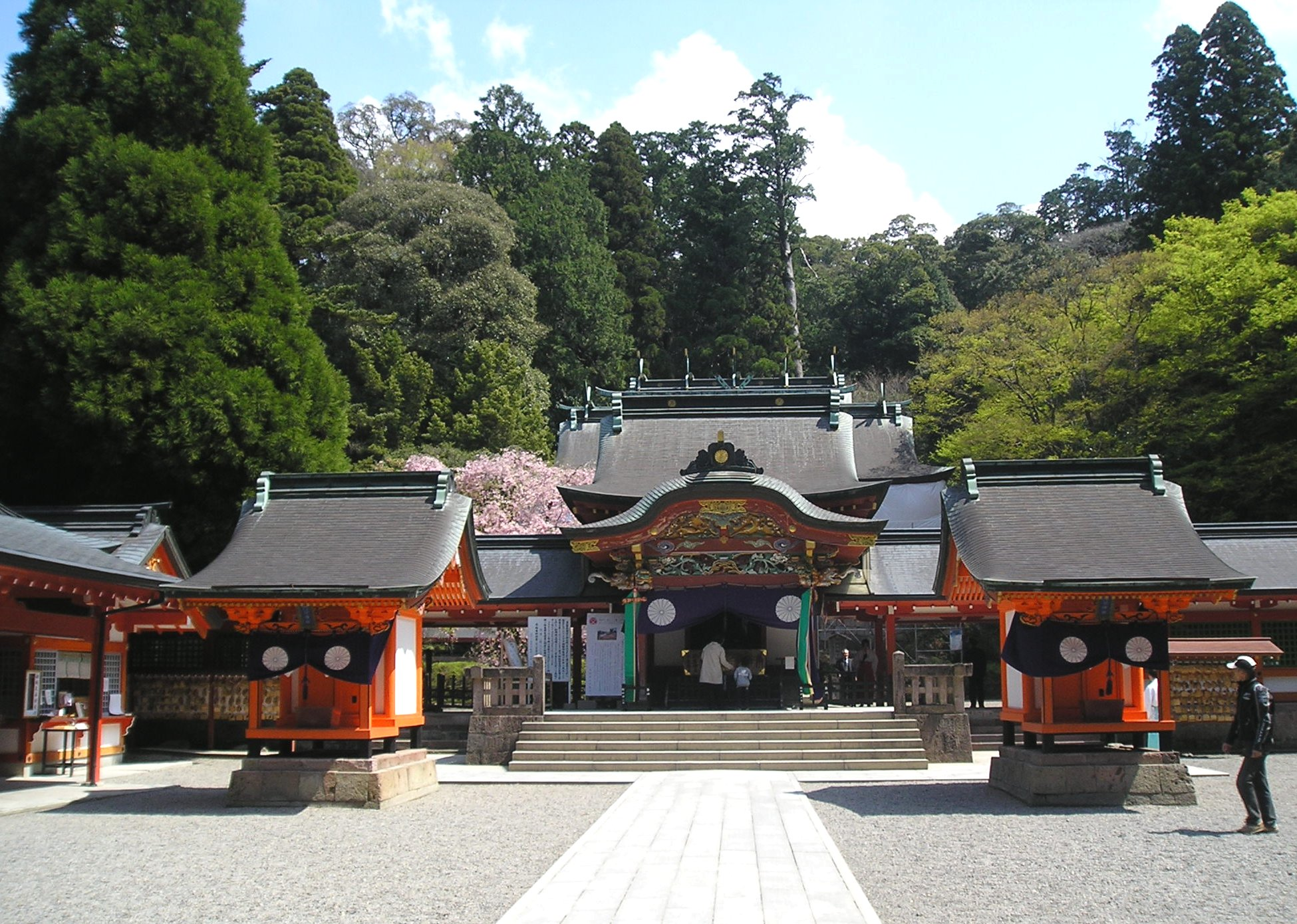 Inside the Kirishima shinto shrine, Kirishima City, Kagoshima, Japan